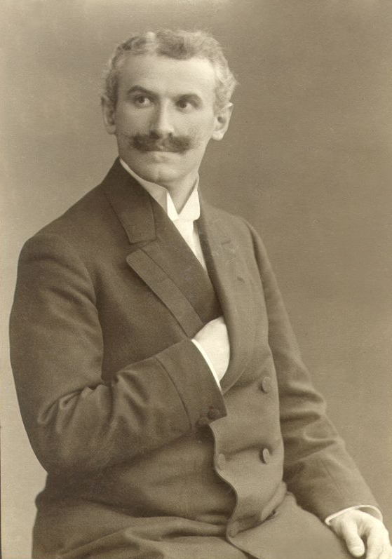 Paul Ferdinand Straßmann (Strassmann) (1866 - 1938), German gynaecologist